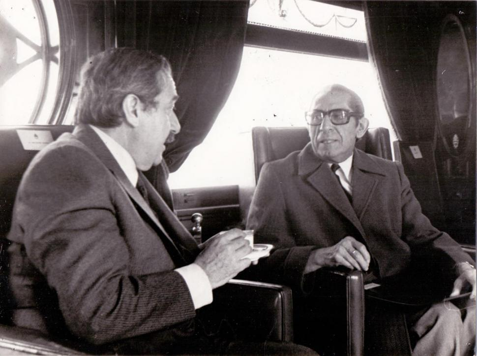 El presidente Raúl Alfonsín conversa con el gobernador de Tucumán, Fernando Riera, durante la visita del primero a la provincia en el año 1984.